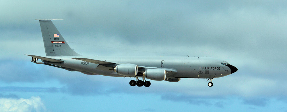 Landing gears down A KC-135R Stratotanker from the 434th Air Refueling Wing lowers its gears as it prepares to land. KC-135Rs are versitle aircraft that can carry passengers and cargo as well as provide aerial refueling support to fighter, bomber and cargo aircraft. (U.S. Air Force photo/Master Sgt. Kevin Gruenwald)